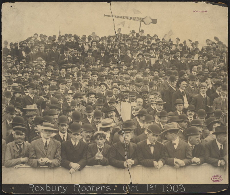 The Boston Rooters, headquartered at McGreevey's Third Base Saloon, and attended games at the Huntington Avenue Grounds.